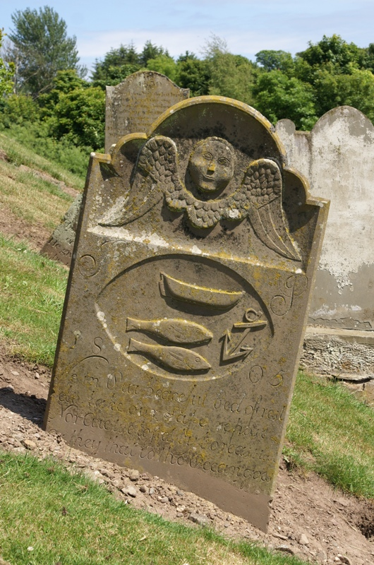 St Vigeans Church, St Vigeans, Angus, Scotland. Head stone (1805).